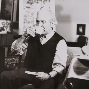 Karl-Erich Koch im Atelier beim Kaffee